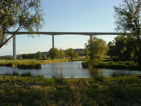 Kőrőshegy Bridge, Hungary